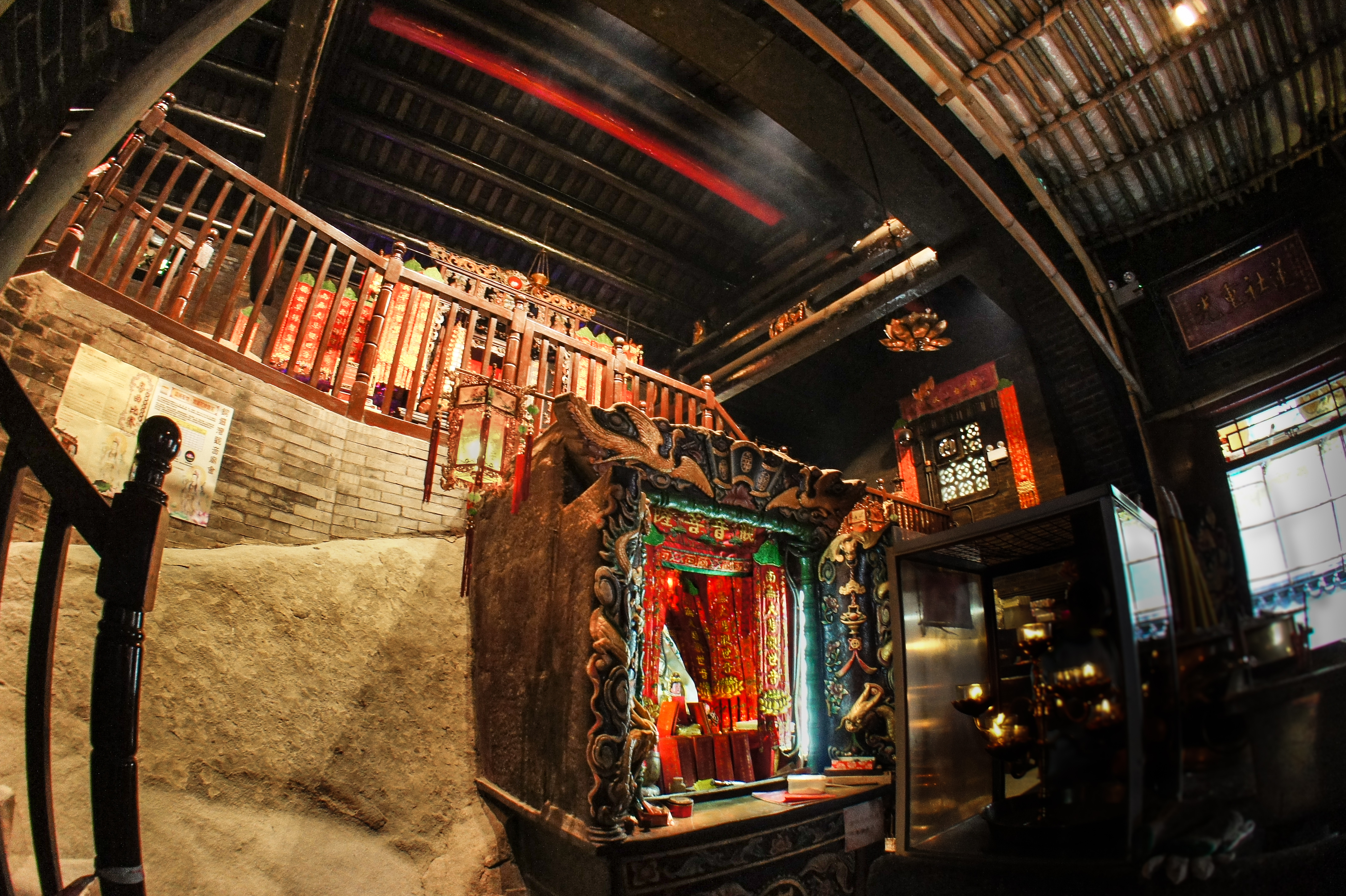 Lin Fa Temple, Lin Fa Kung Street West, Tai Hang, Wan Chai, Hong Kong.